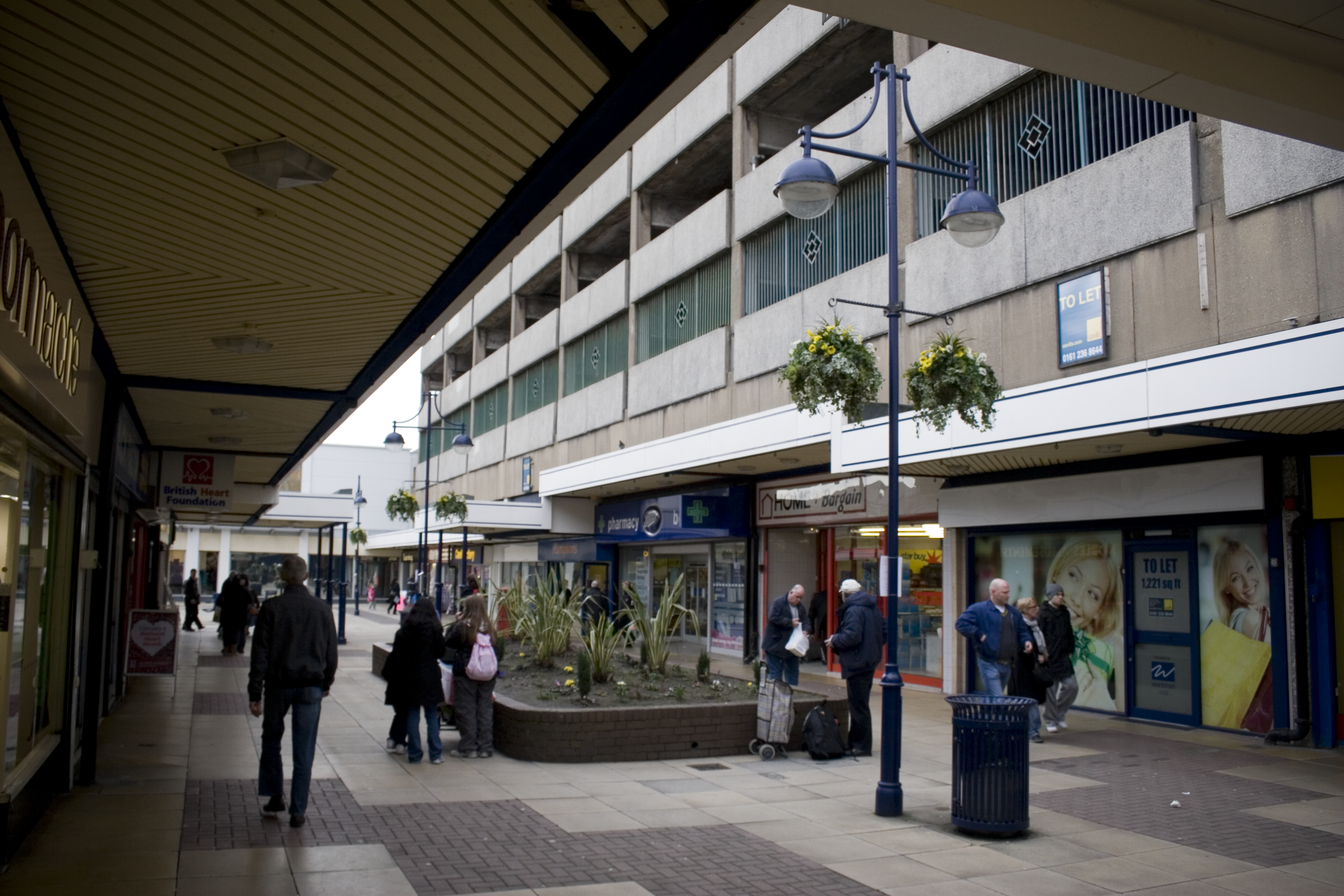 A shopping arcade in Eccles, Greater Manchester.